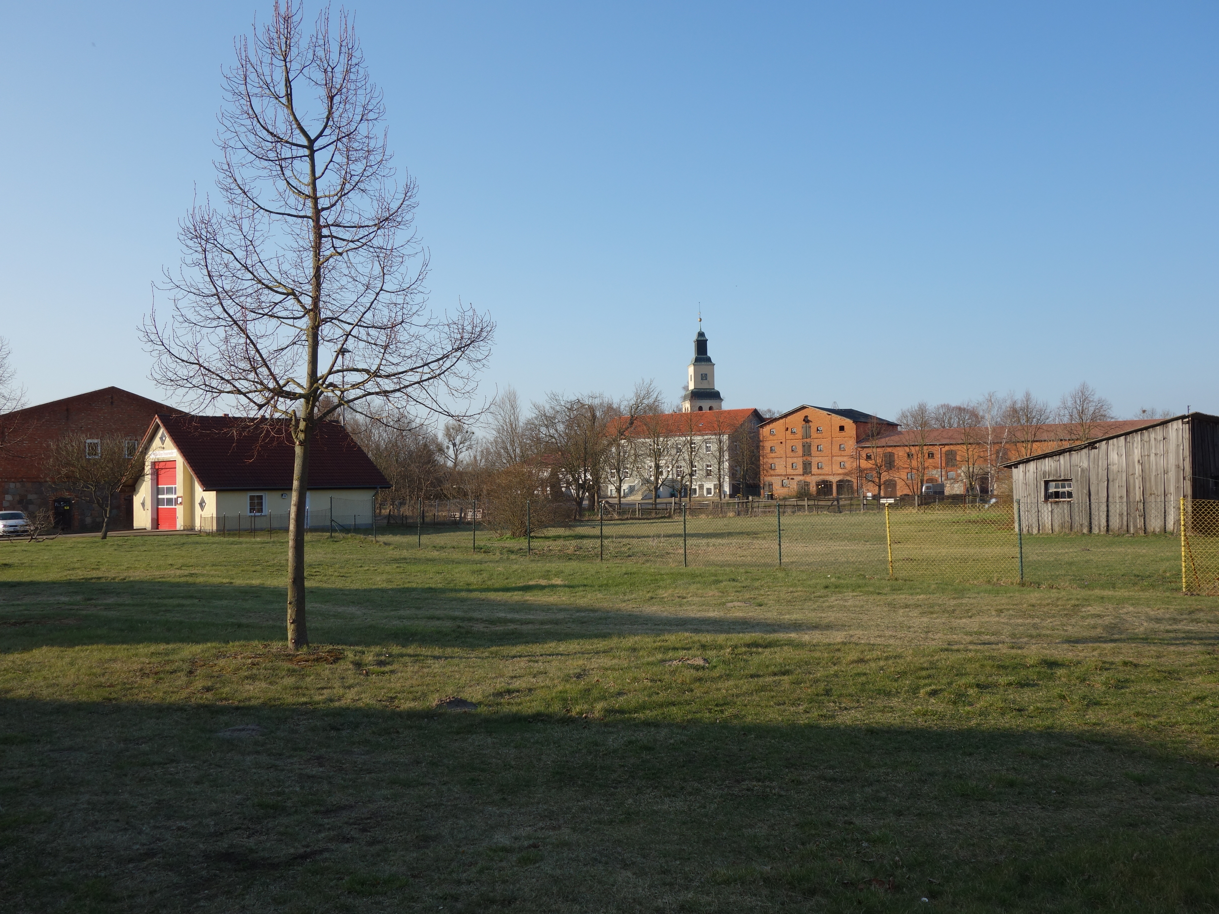 Southern view of the village in Frauenhagen , Angermünde municipality , Uckermark district, Brandenburg state, Germany